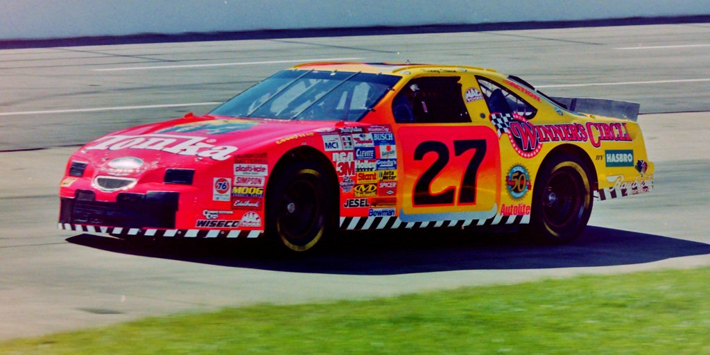 Kenny Irwin Jr. drives the No. 27 Tonka/Winner's Circle Ford for David Blair Motorsports at Richmond International Raceway, 1997.